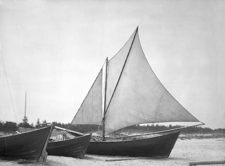 Loja, Livonian boat type